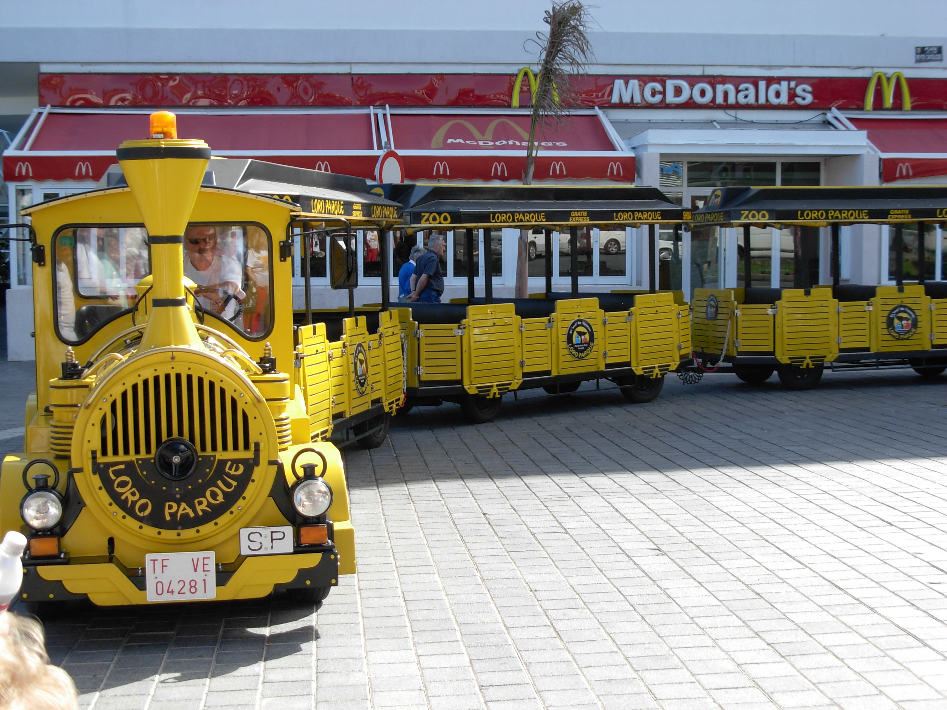 A Dotto Trains F87 as a shuttle train service to Loro Parque, Puerto De La Cruz, Spain.